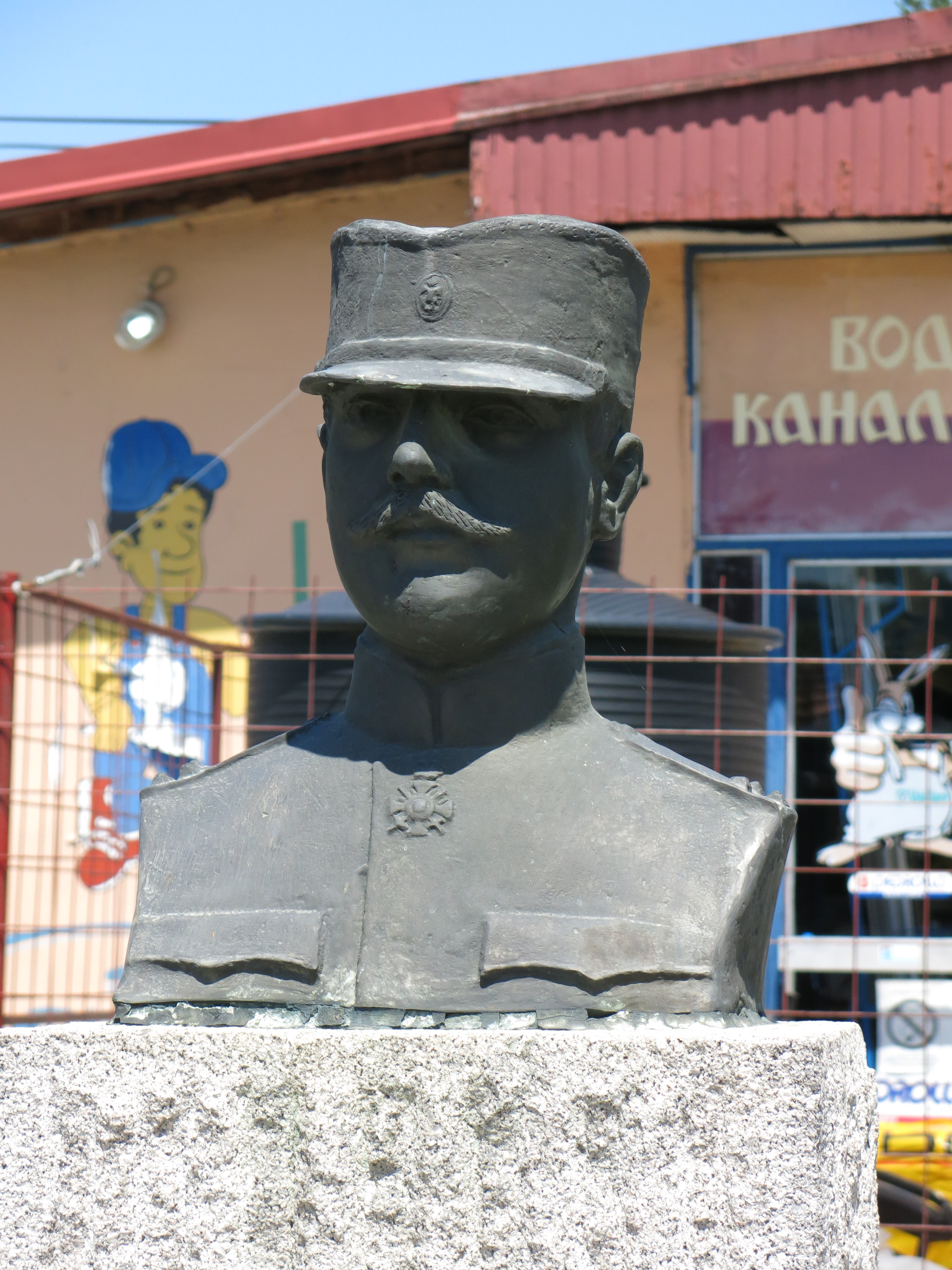 Ljig, Monument to Živojin Baić